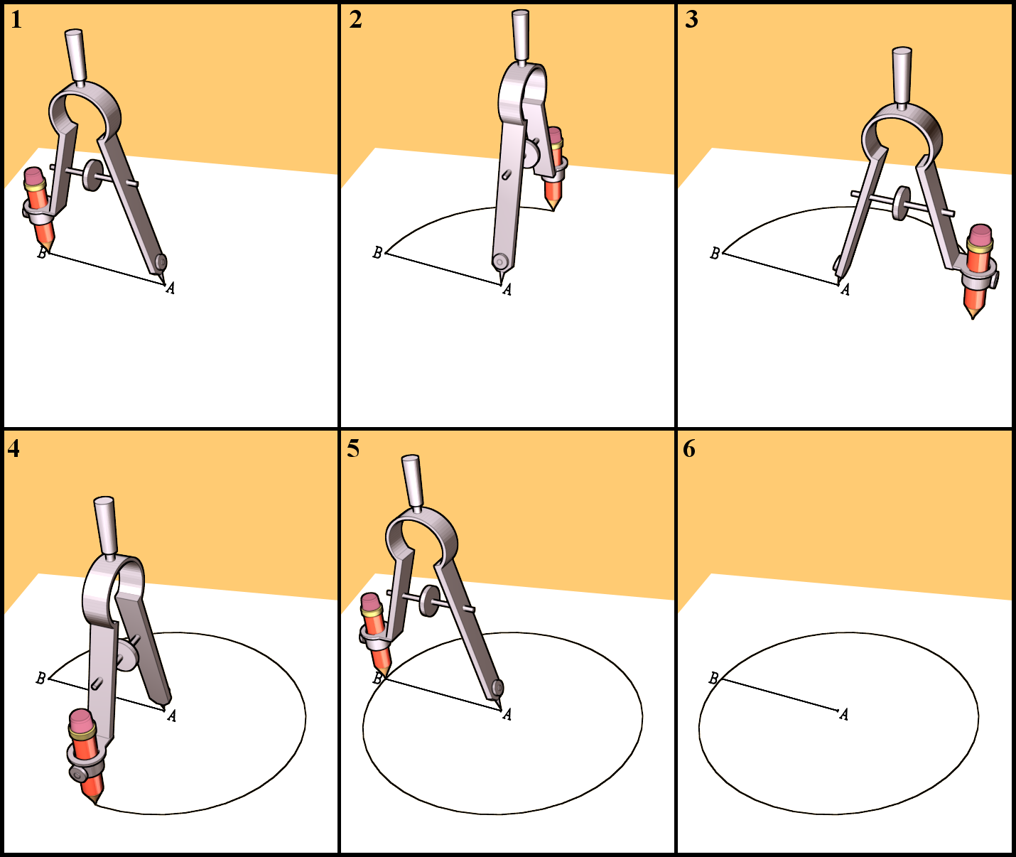 geometry